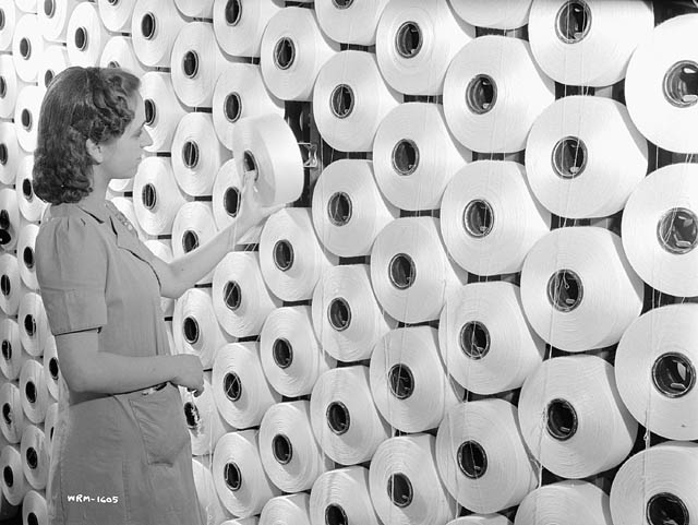 Woman worker replaces a spool of cotton yarn on a "warping machine" at the Montreal Cottons textile plant. (location: Valleyfield, Quebec)